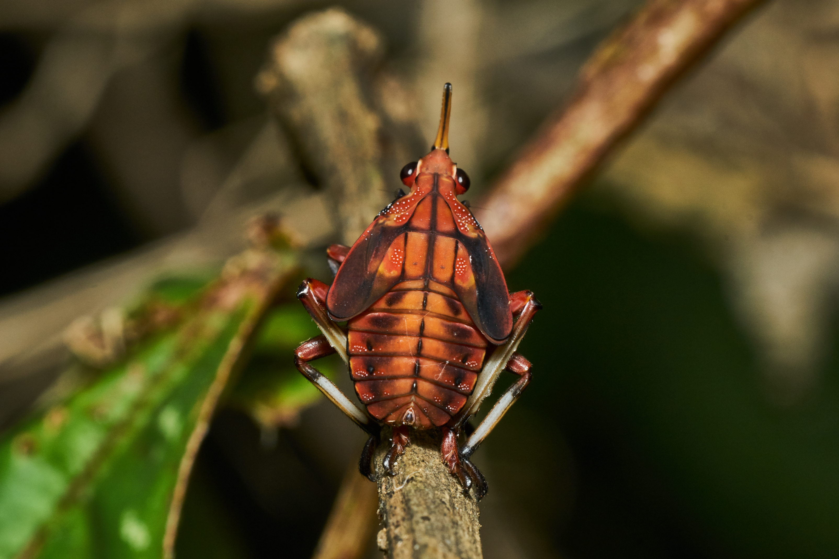 Nymph of Kalidasa lanata. It will be black in early instar, and later changed to bright red as here.